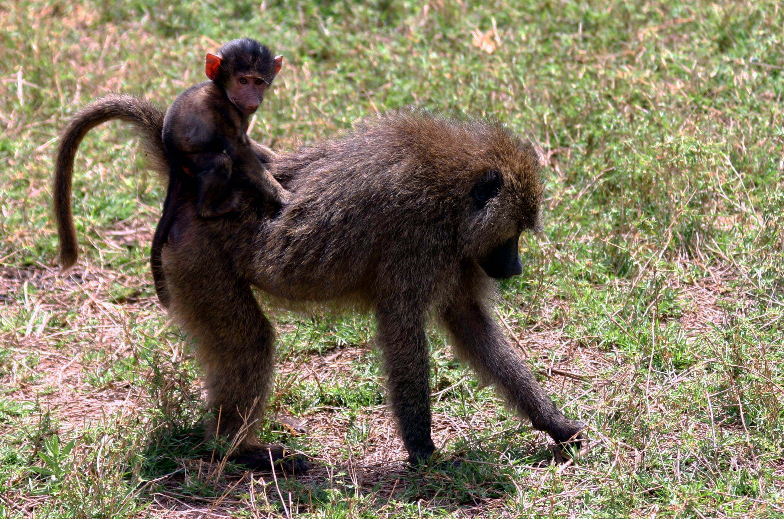 Olive Baboon (Papio Anubis) with baby, Lake Manyara National Park, Tanzania